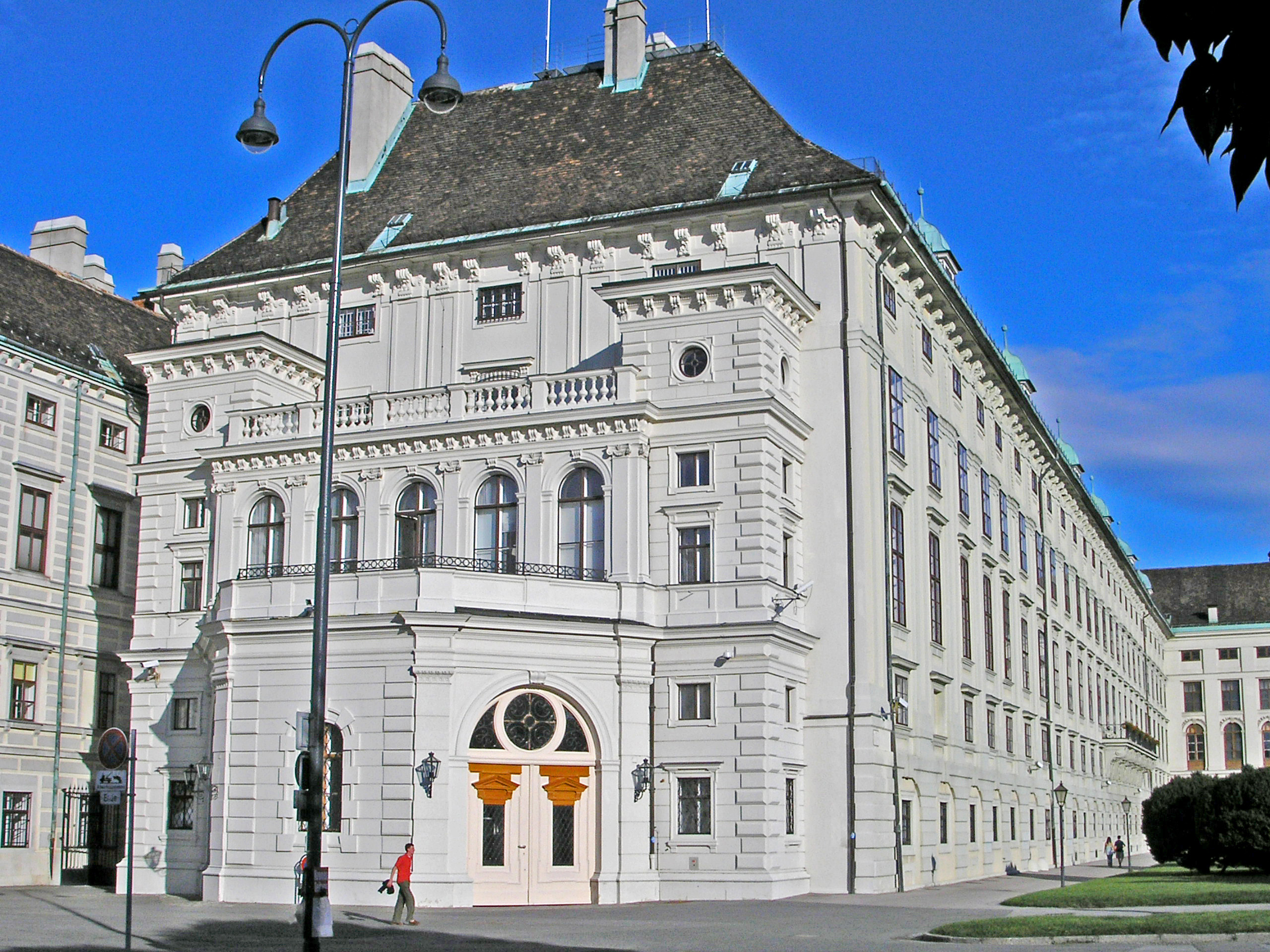 The Leopoldinischer Trakt (Leopoldine Wing) of the Hofburg Imperial Palace in Vienna, today houses the offices of the Federal President of Austria.